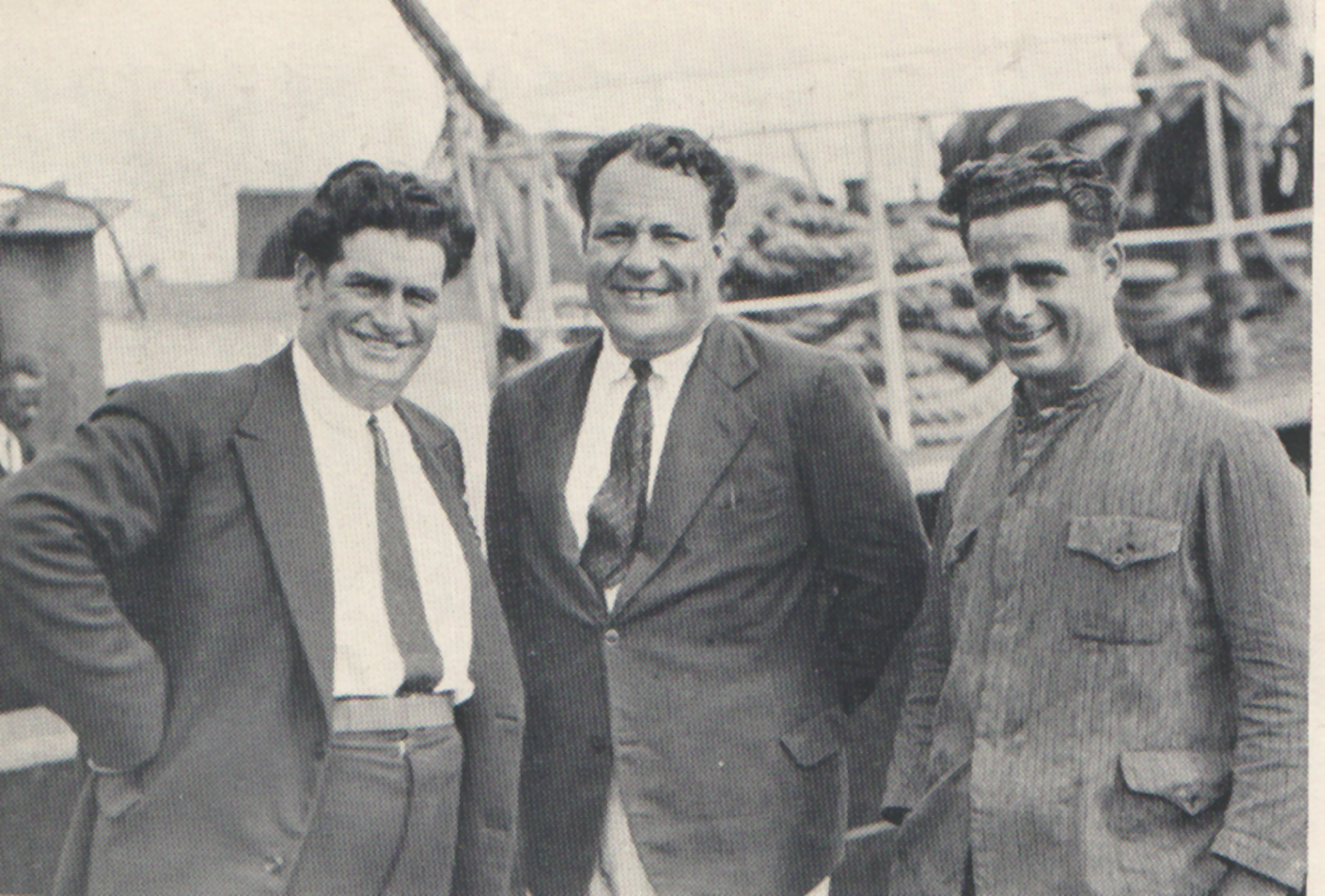 The italian helmet divers Franceschi, Gianni and Bargellini